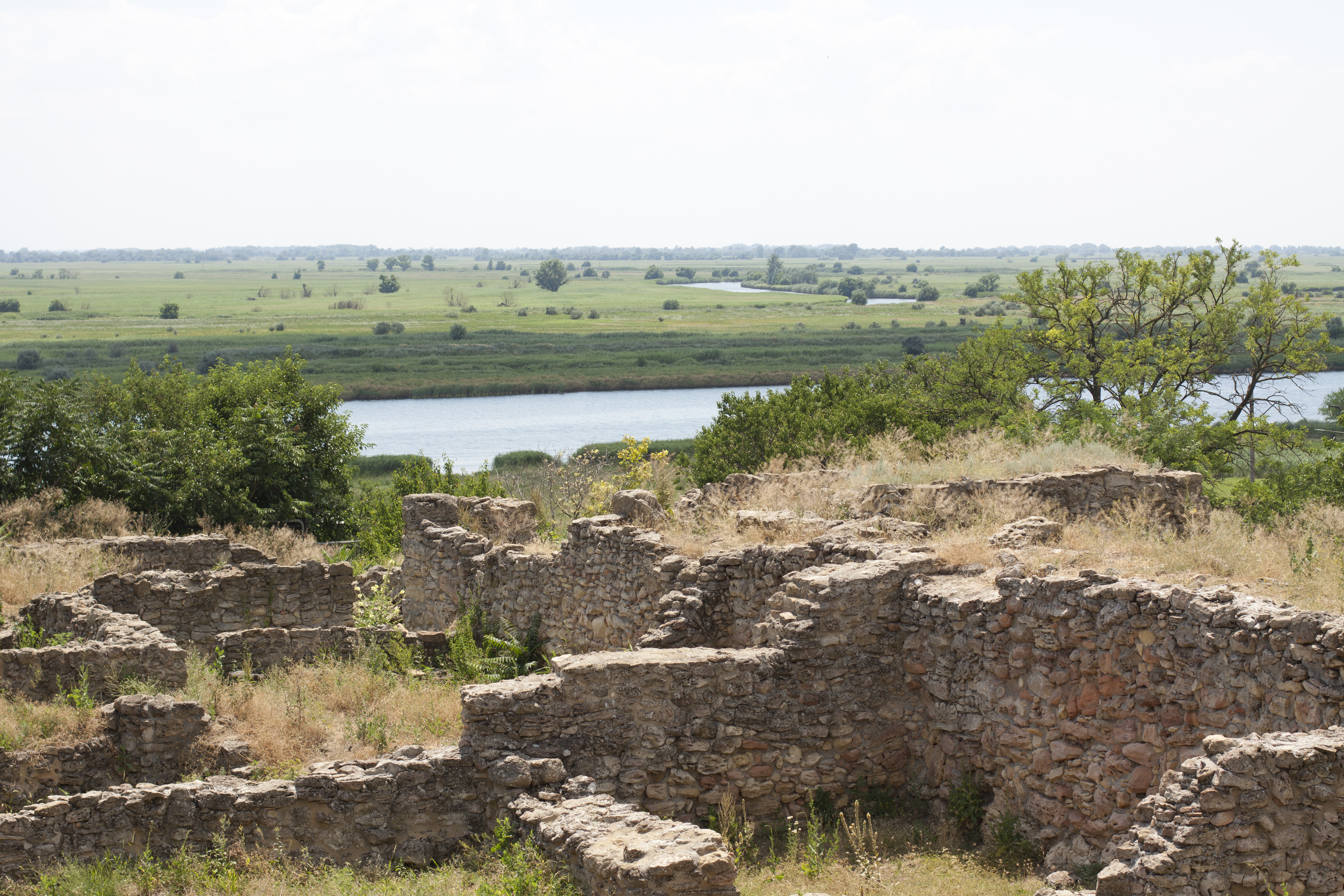 Excavations in the city of Tanais